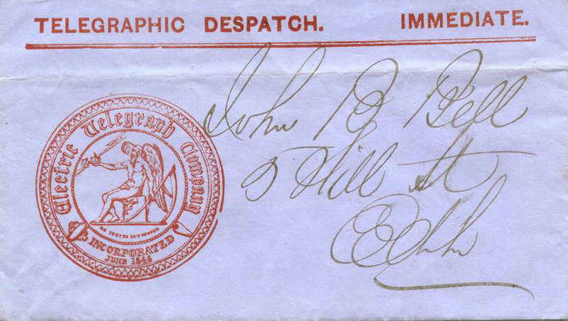 Scan of part of a document from the Electric Telegraph Company circa 1850 showing the company seal. Probably part of an envelope or telegraph form.